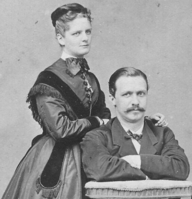 A foto showing Johann and Marie Smidt in Bremen, prior to their departure for Calcutta